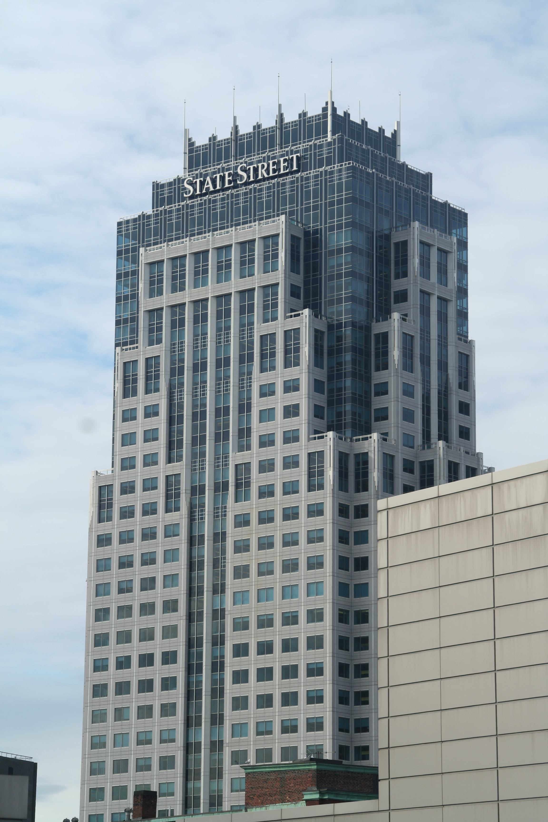 One Lincoln Street, as seen from the roof of South Station Transportation Center